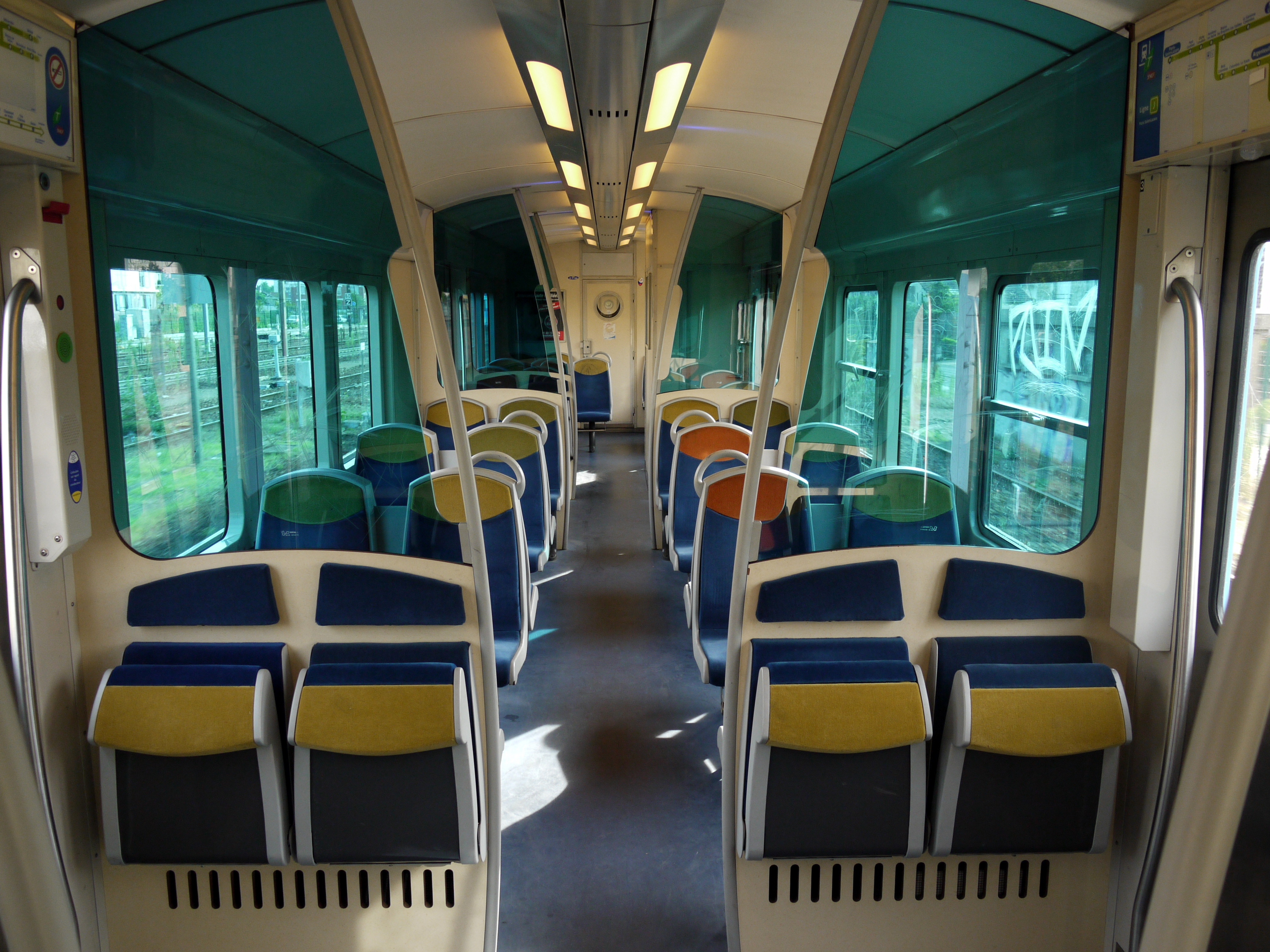 Inox commuter train in Ile de France